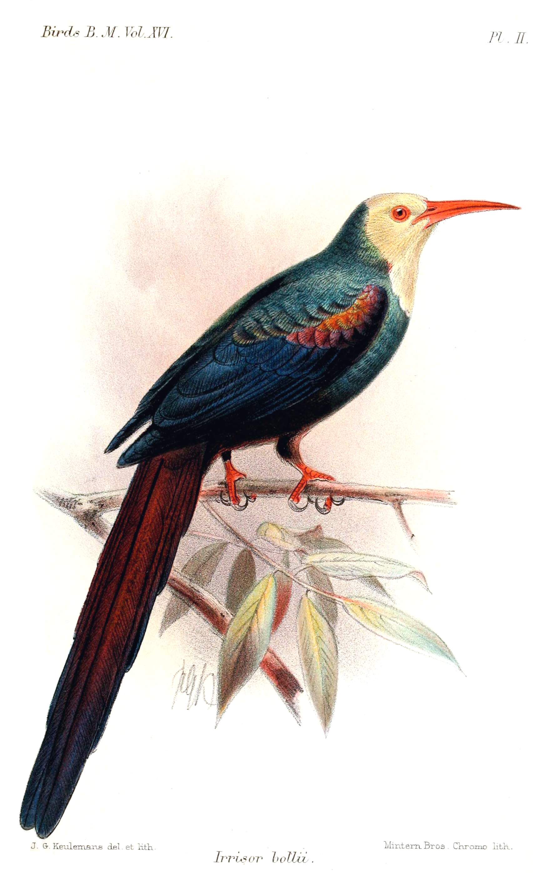 Irrisor bollii = Phoeniculus bollei, White-headed Wood Hoopoe